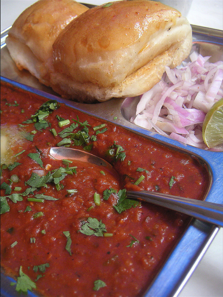 Pav Bhaji,my favourite hotel snacks..It tastes so yummy...!!